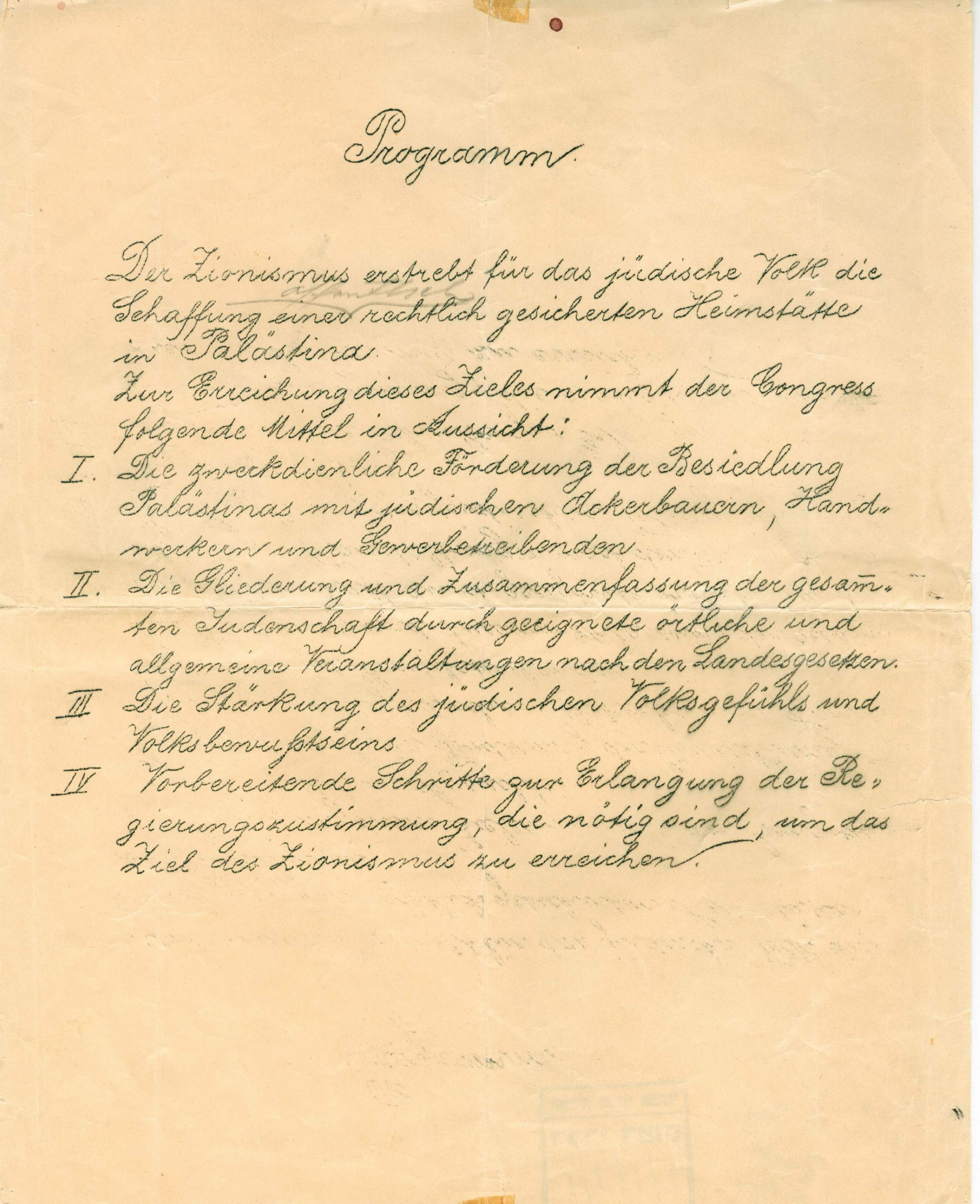 Basel program, 1897